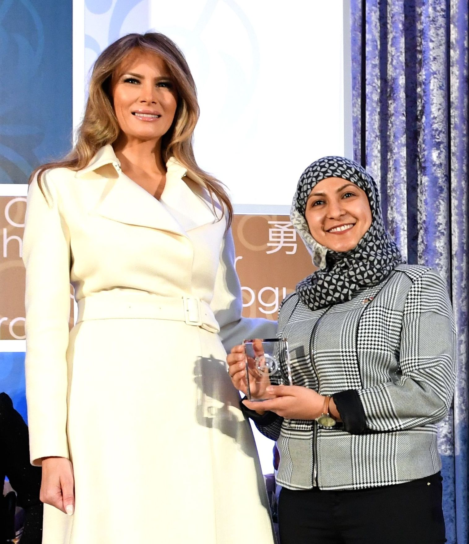 "First Lady Melania Trump presents the 2017 International Women of Courage Award to Fadia Najib Thabet of Yemen during a ceremony at the U.S. Department of State in Washington, D.C., on March 29, 2017. " "As a Child Protection Officer who reported on violations against children in conflict during the recent conflicts in southern Yemen, Fadia Najib Thabet faced death on a regular basis as she tried to protect the region's children from Al Qaeda and Houthi militias. Through her courageous work, she dissuaded young boys from joining Al Qaeda, exposed its Yemeni branch "Ansar al Sharia" as a recruiter of child soldiers, and documented for the United Nations Security Council cases of mining, abduction, rape, and other human rights violations by various armed groups. Thabet took the view that children recruited by extremists and militants were not criminals, but, victims. She worked with parents, schools, communities, the children themselves, and eventually the United Nations to develop an action plan in southern Yemen to save children from the war. Thabet continues to work on behalf of dispossessed and uprooted children with the American Refugee Committee." [1]